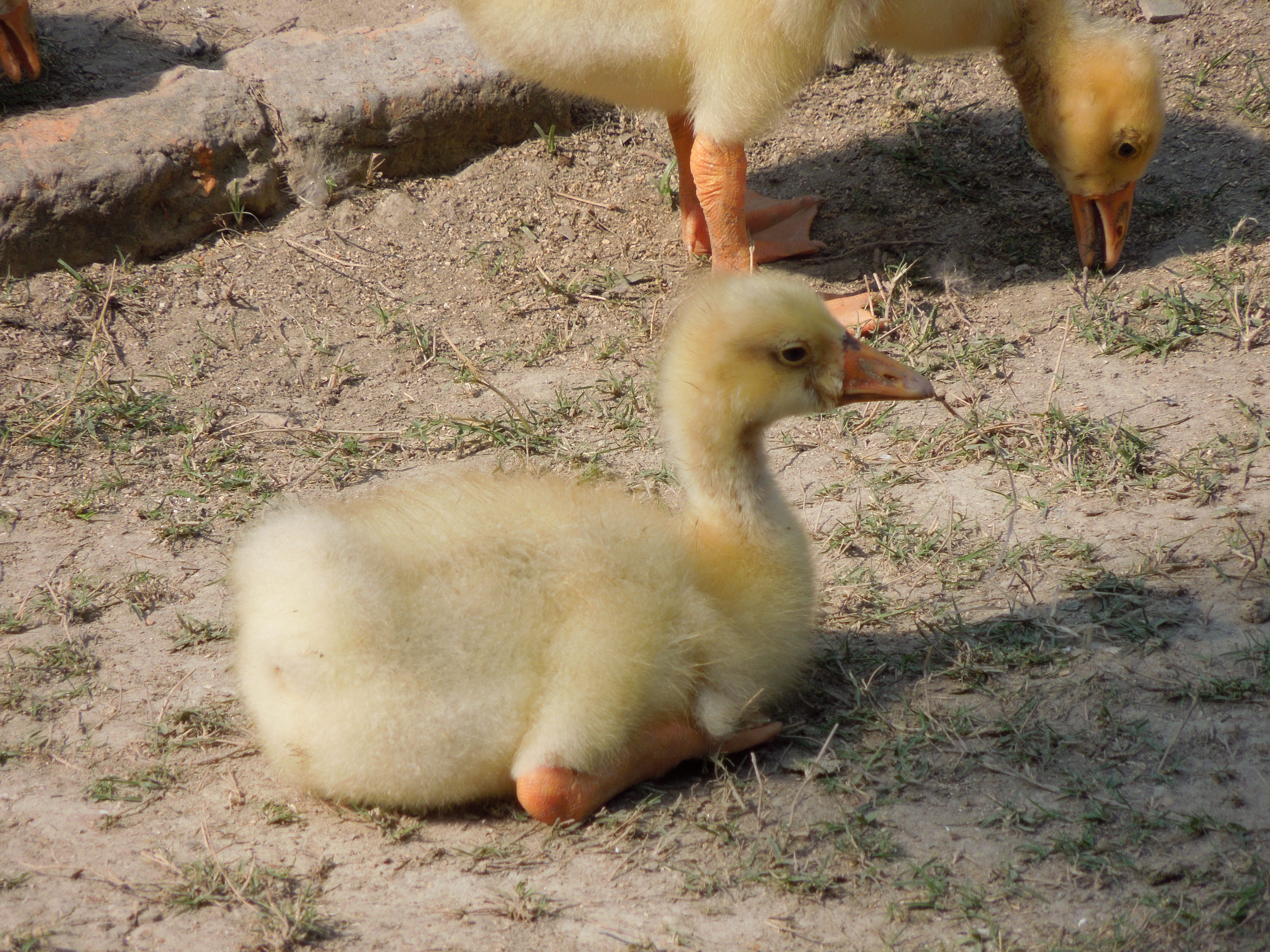 Swan Duckling of Bangladesh